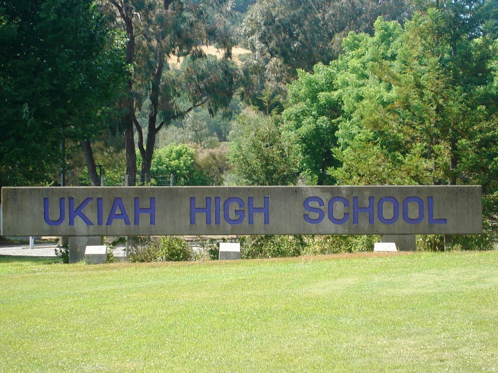 front of ukiahi